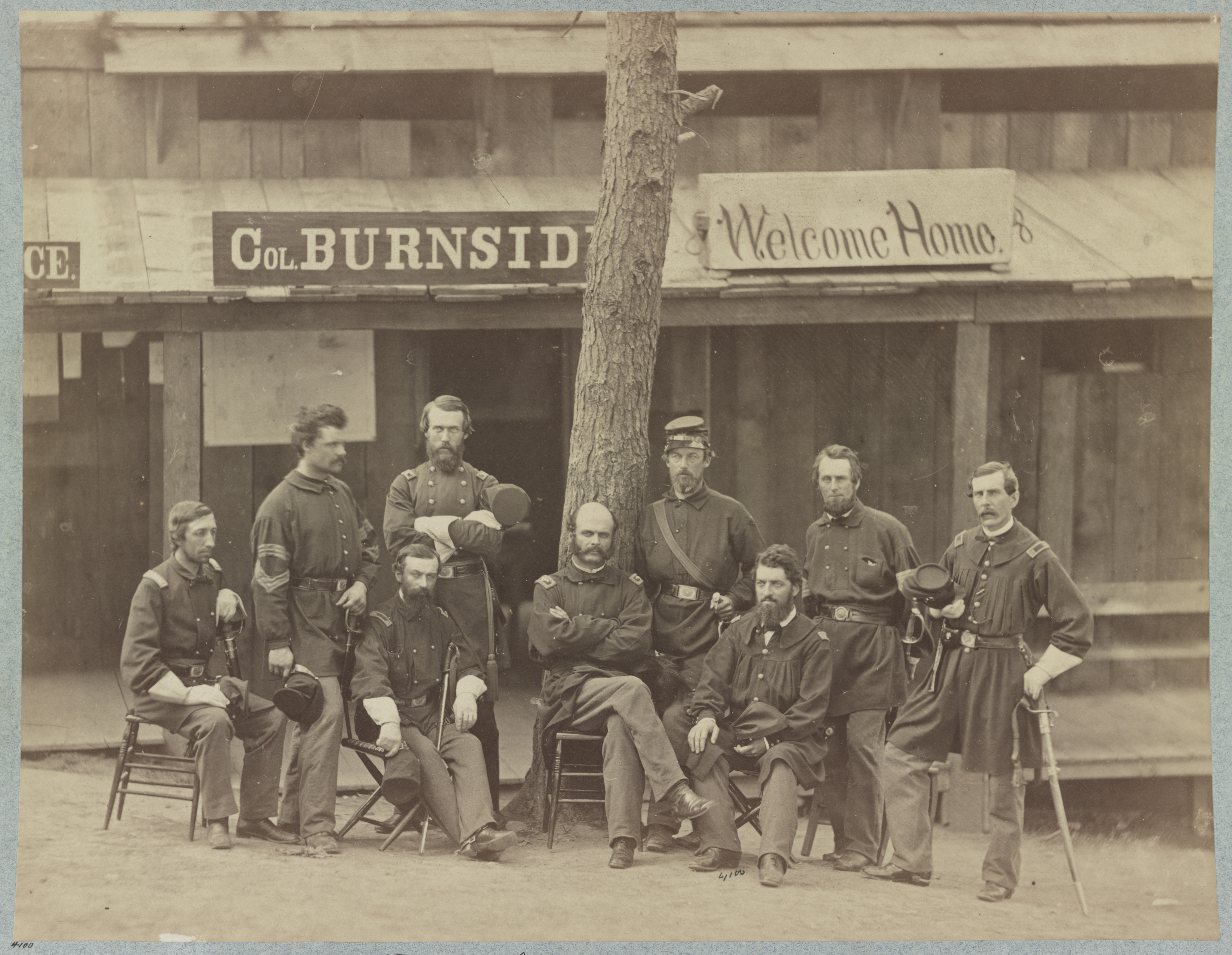 Ambrose Everett Burnside with eight officers posed in front of building, with sign reading "Col. Burnside welcome home."